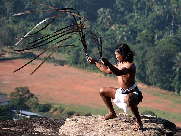 Ethunu Kaduwa is a massacre weapon used in ancient times in Angampora, the native martial art of Sinhalese